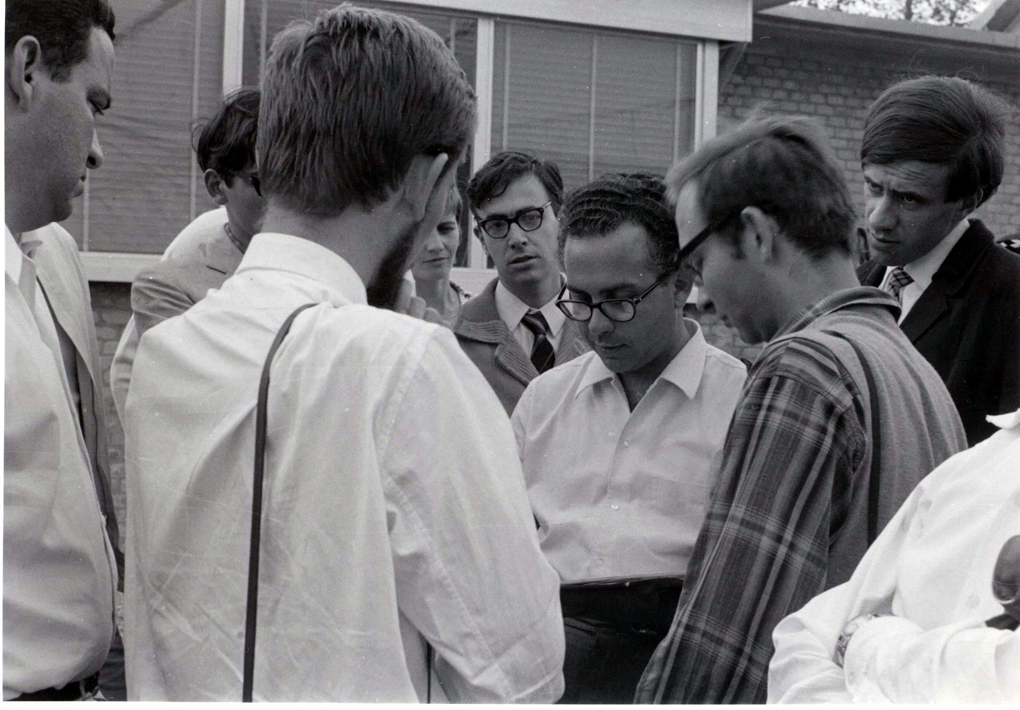 Alessandro Braccesi (1936-2013), Professor in Astronomy at the Bologna University, explaining to fellow researchers details of his research during a break in congress in 1972